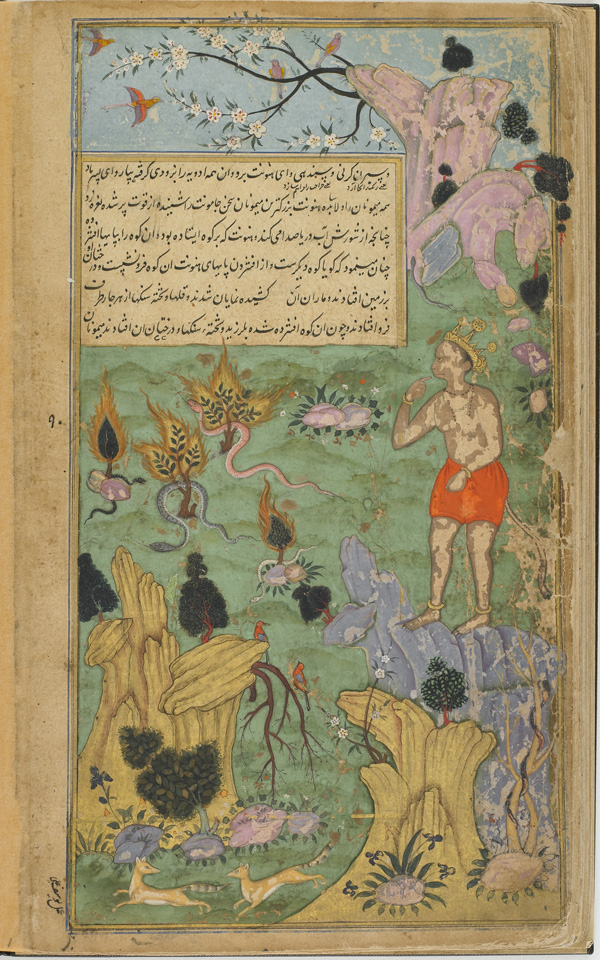 Folio from the Ramayana of Valmiki (The Freer Ramayana), Vol. 2, folio 234; recto: text; verso: At Jambavan's urging, Hanuman goes to the Himalayas to find the four healing plants 1597-1605 Yusuf 'Ali , (Indian, Mughal dynasty Opaque watercolor, ink, and gold on paper H: 27.5 W: 15.2 cm Northern India Gift of Charles Lang Freer F1907.271.234